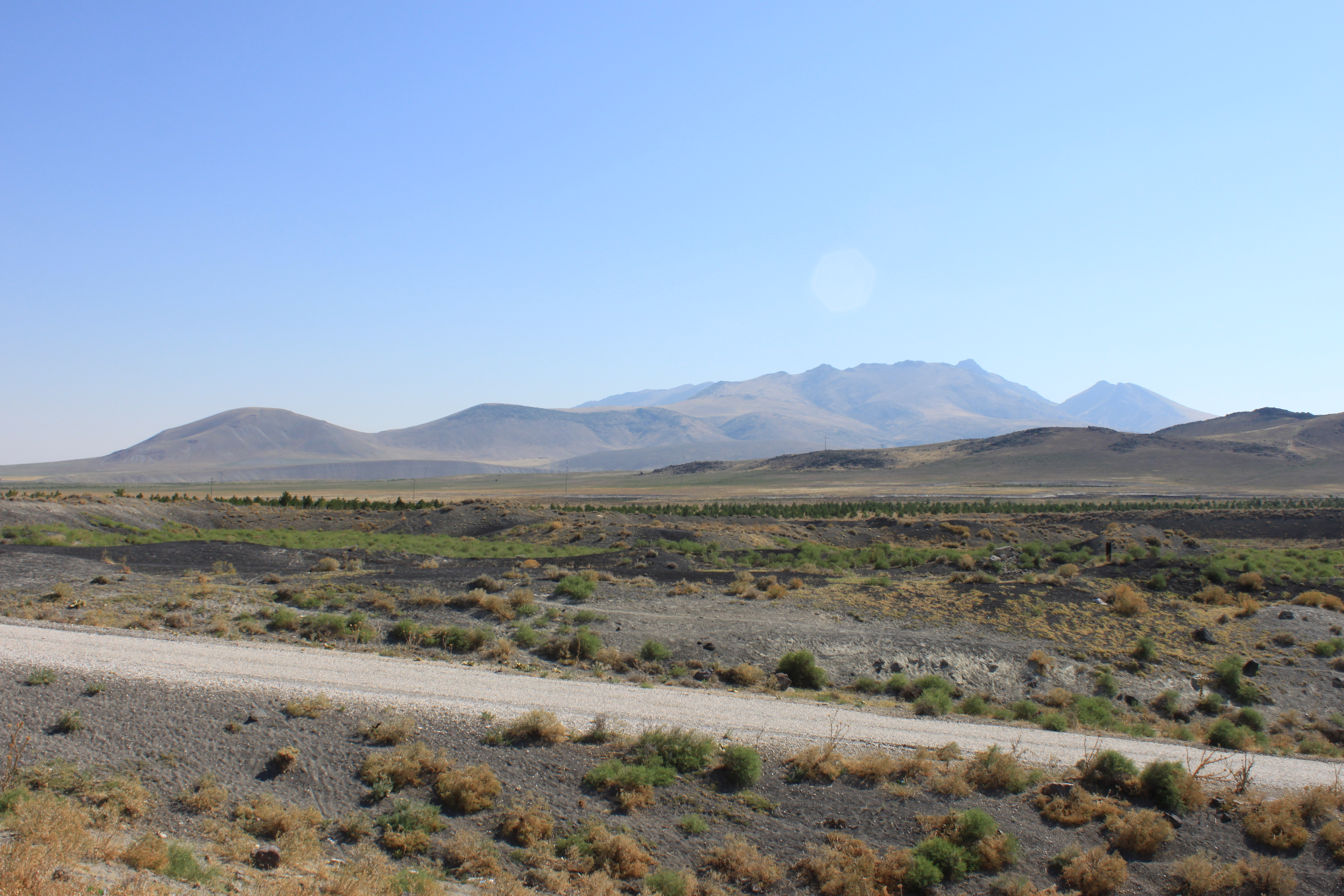 Karapınar; Looking east on Karacadağ Mountains (2,030 m), a volcanic crater mountain